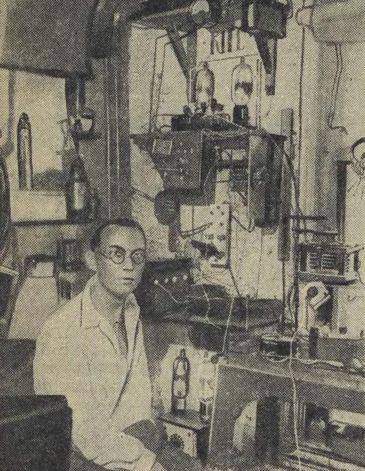 Fedor Lbov and first amateur radio transmitter in USSR (R1FL), 1925